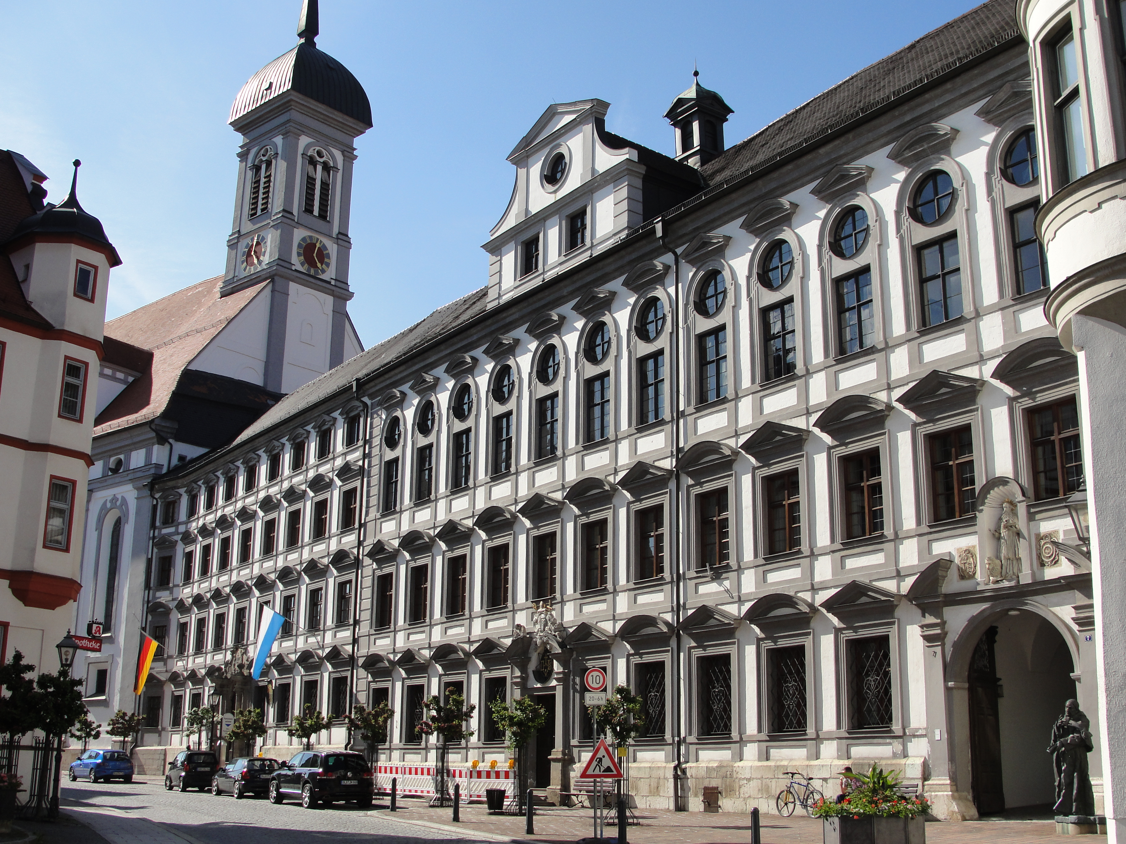 The Collegium St. Hieronymi today Bavarian Teachers' Training Institute